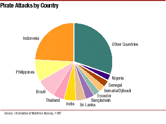 Pirate attacks by Country as of 1998.